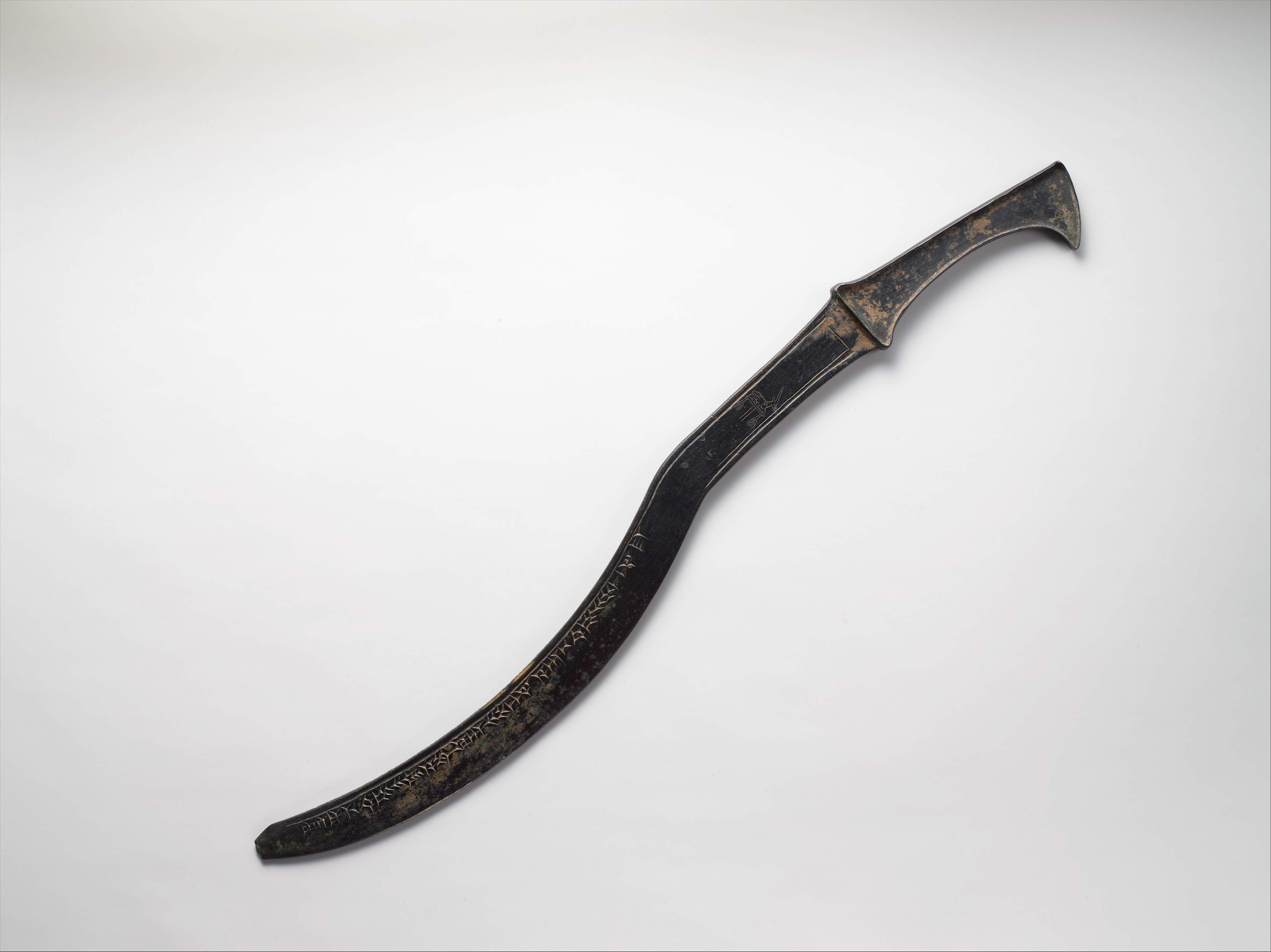 Assyrian; Sickle sword; Metalwork-Implements-Inscribed ; cuneiform inscription commemorating the construction of a palace by the Middle Assyrian king Adad-nirari I (r. 1307–1275 B.C.).